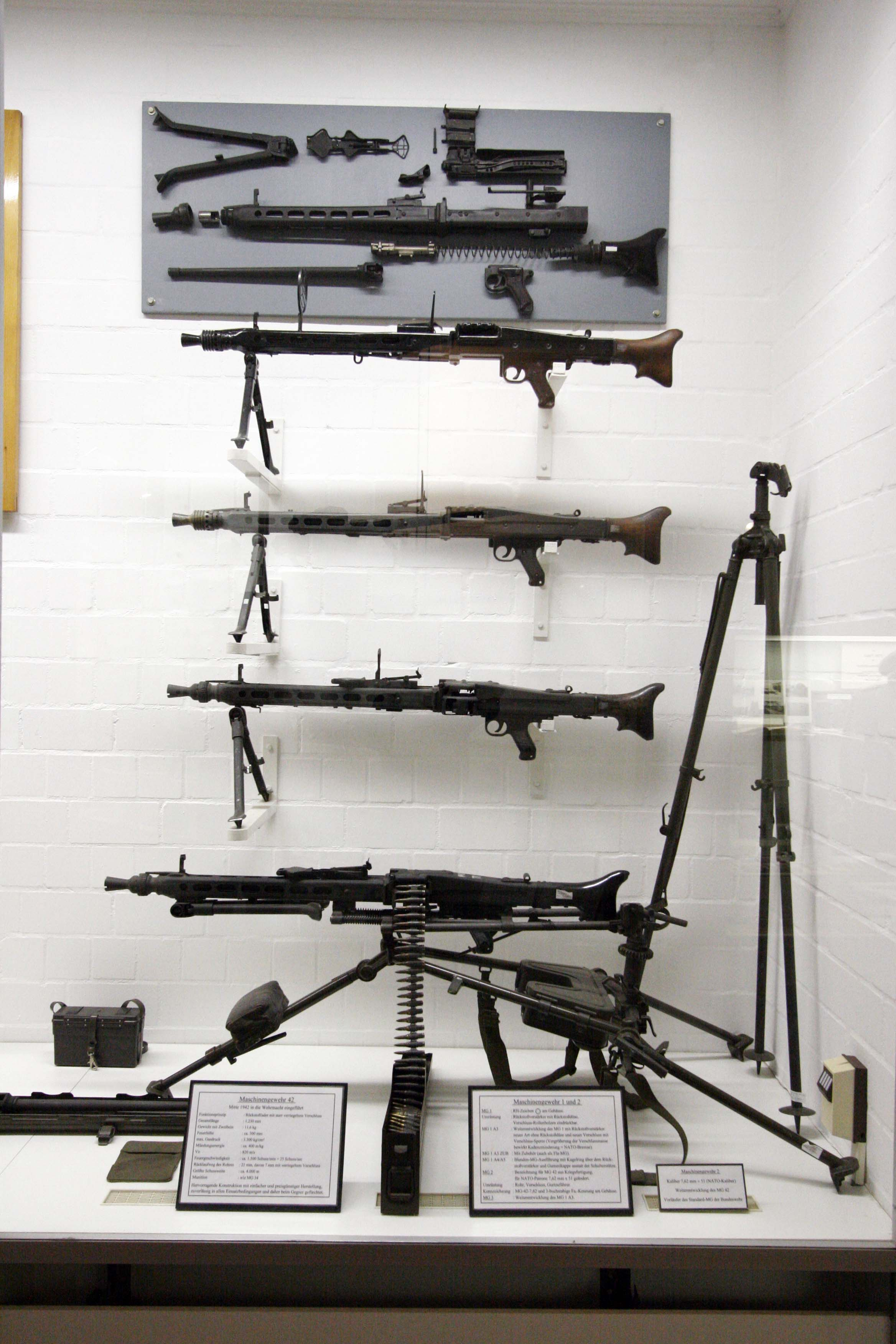 MG42 "Maschinengewehr 42" on display at the Deutsches Panzermuseum Munster , Germany.